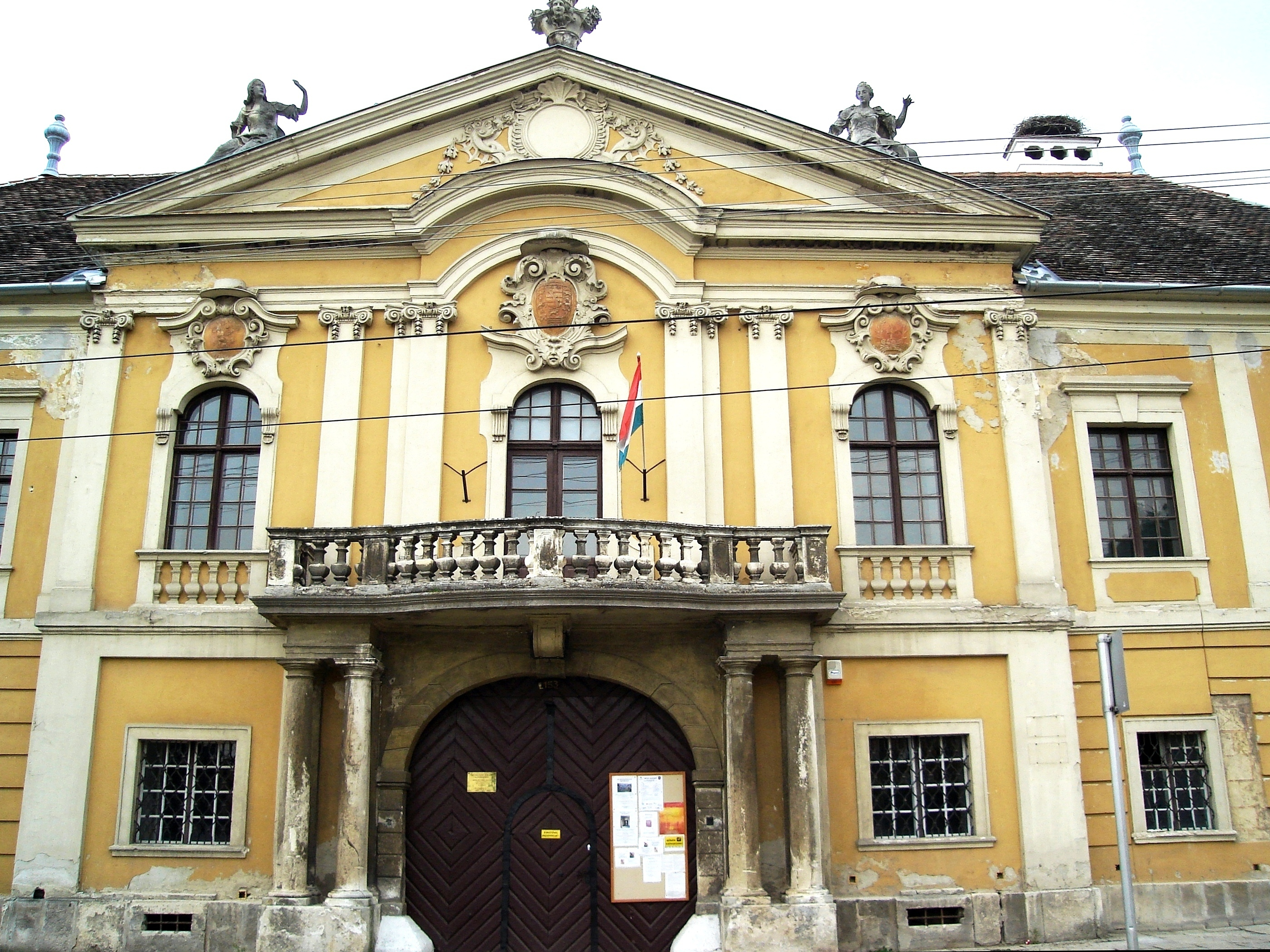 The street front of the episcopal palace in Fertőrákos.